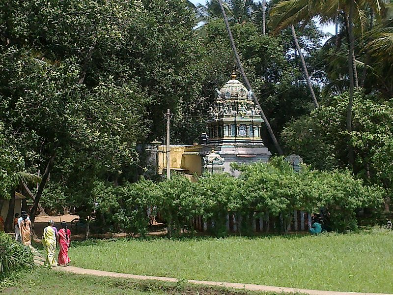 This photo was taken by me near Tenkasi